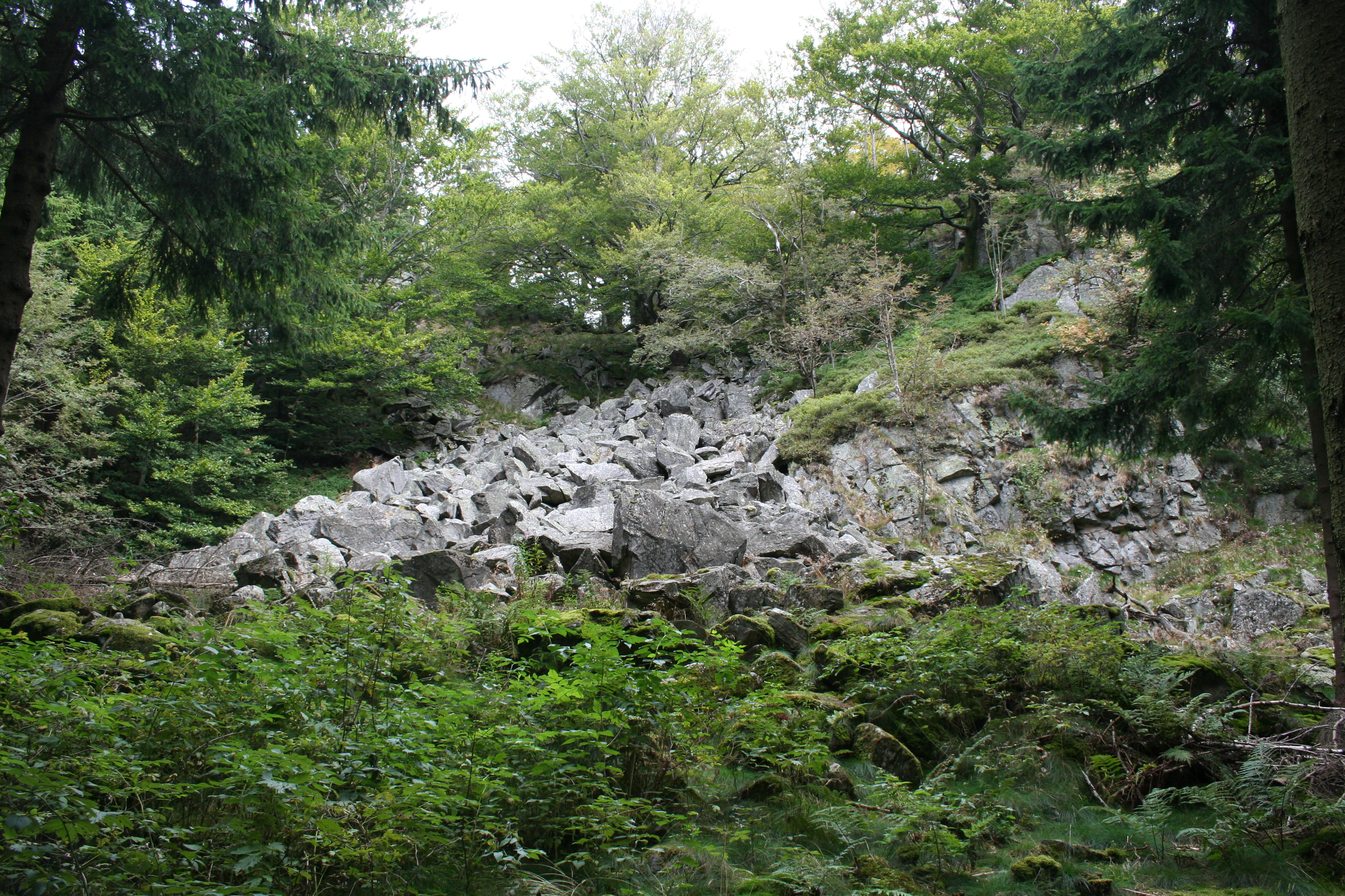 Rhön Mountains natural outcrop (Basalt) called Bubenbader Steine